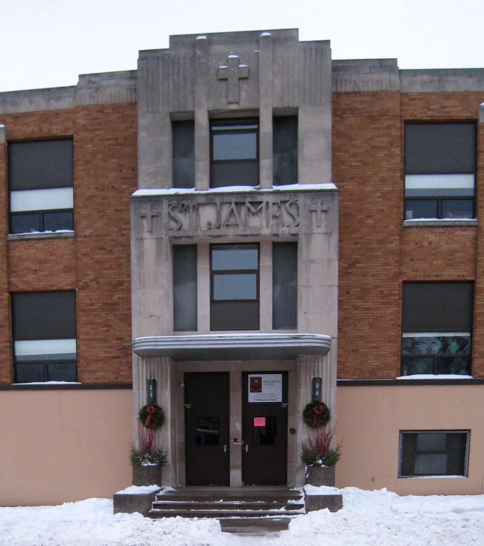 Leased quarters of Providence Academy, located in the former St. James the Less Catholic school building in La Crosse, WI, USA. The school is located on Windsor St. between Caledonia St. and Avon St.